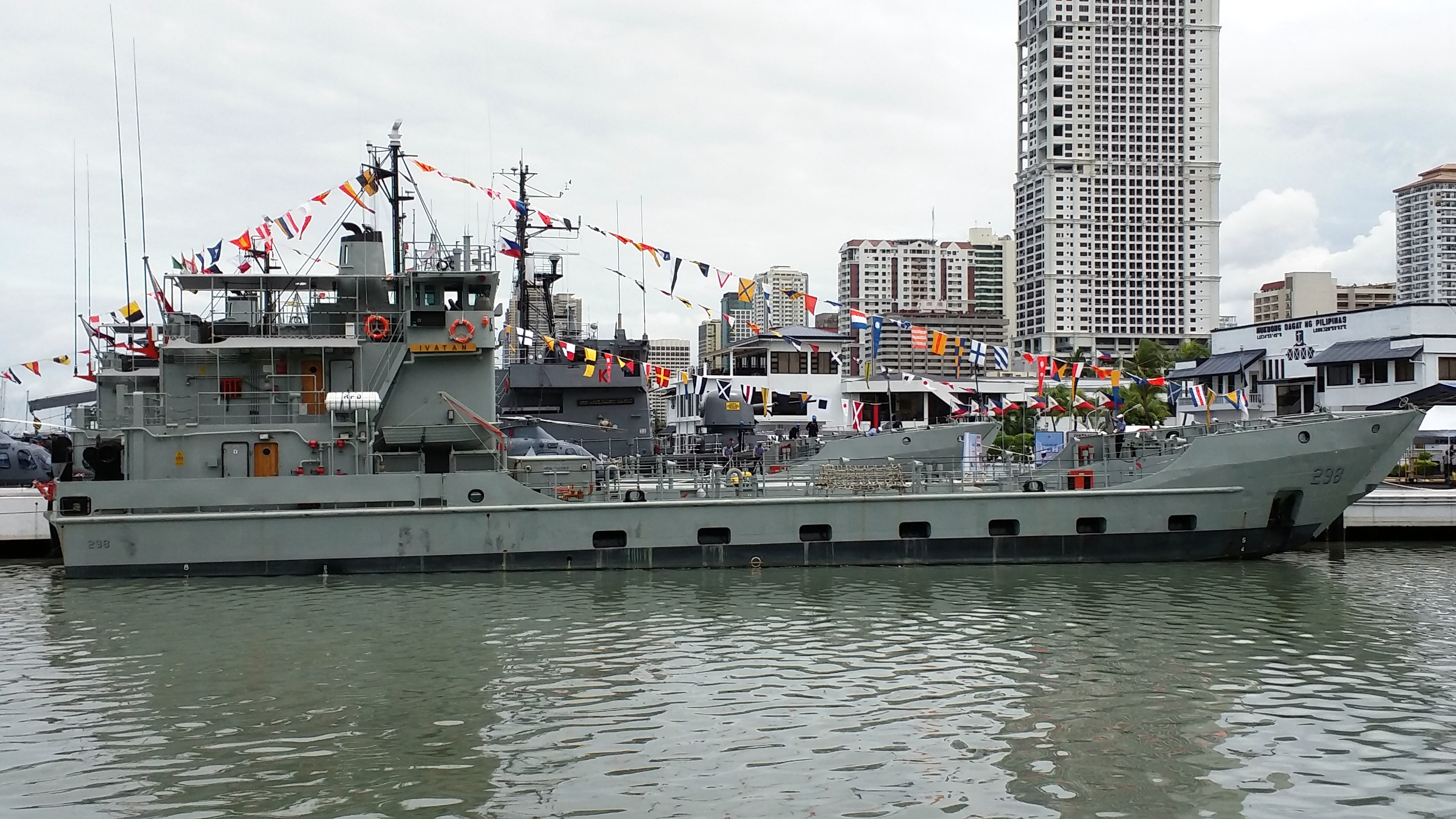 AT-298 BRP Ivatan Landing Craft Heavy (LCH) of the Philippine Navy. Photo taken at the Naval Station Jose Andrada.